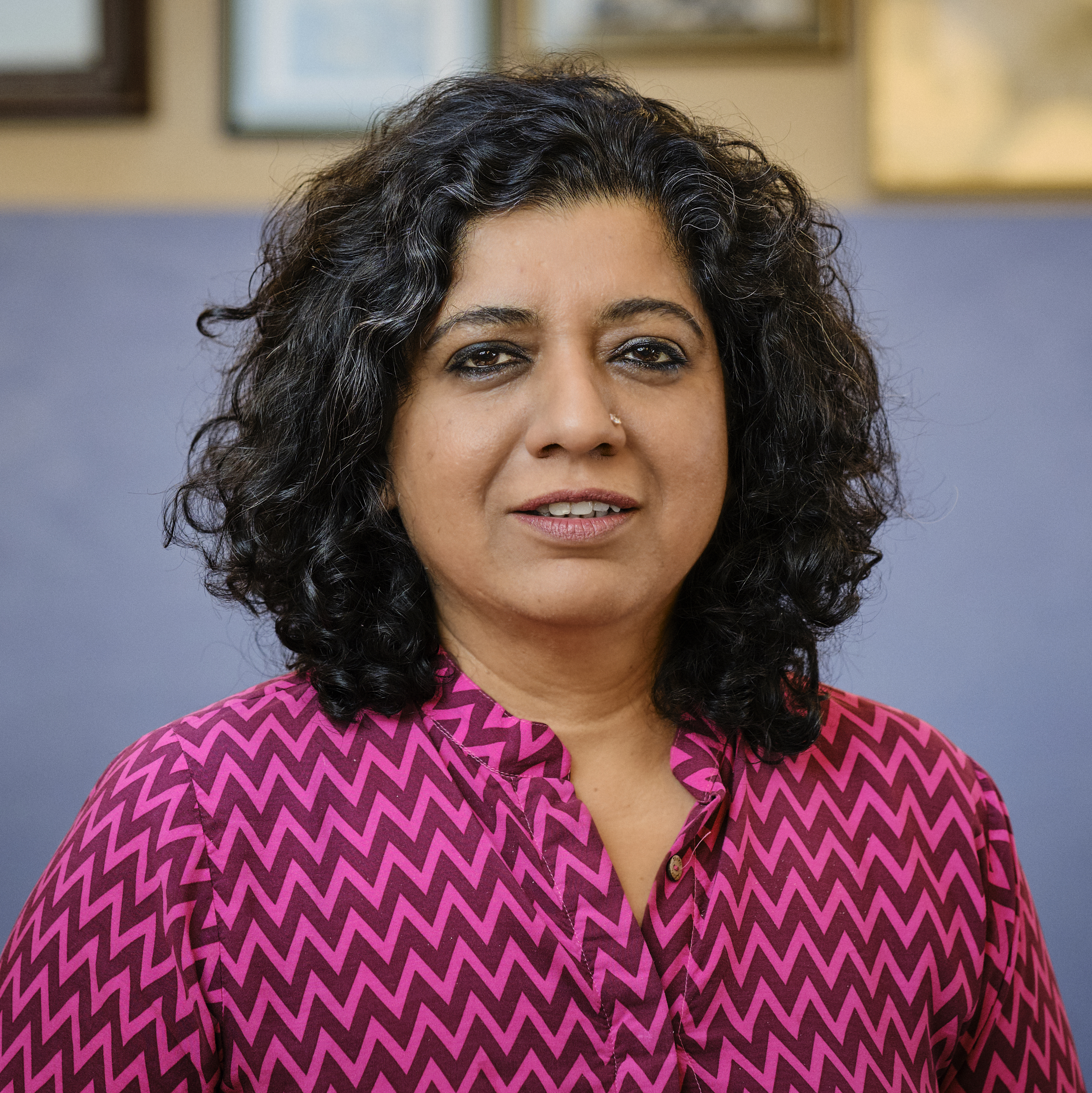 Asma Khan; chef-founder, Darjeeling Express, Soho, London, England, UK